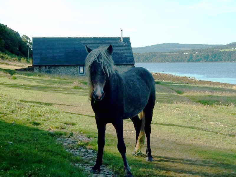 Wild Eriskay pony on Holy Isle. Picture by Sarah Lionheart taken in August 2003.